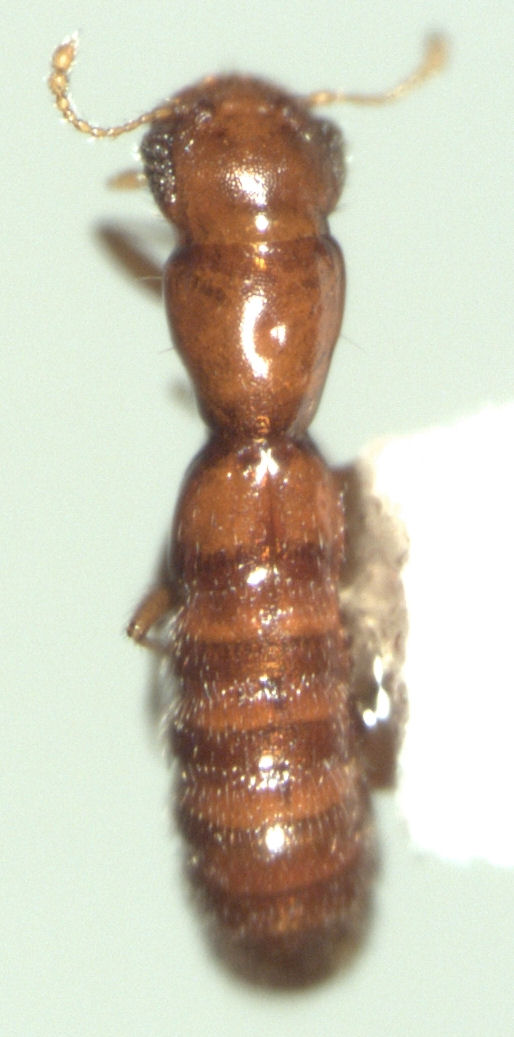 adult Kiwiaesthetus sp.. Arthurs Pass National Park, Bealey Chasm, 850 m, Nothofagus solandri forest, YPT. Canterbury Region, New Zealand, 4.iii.2007, JW Early, RF Gilbert, L15874.